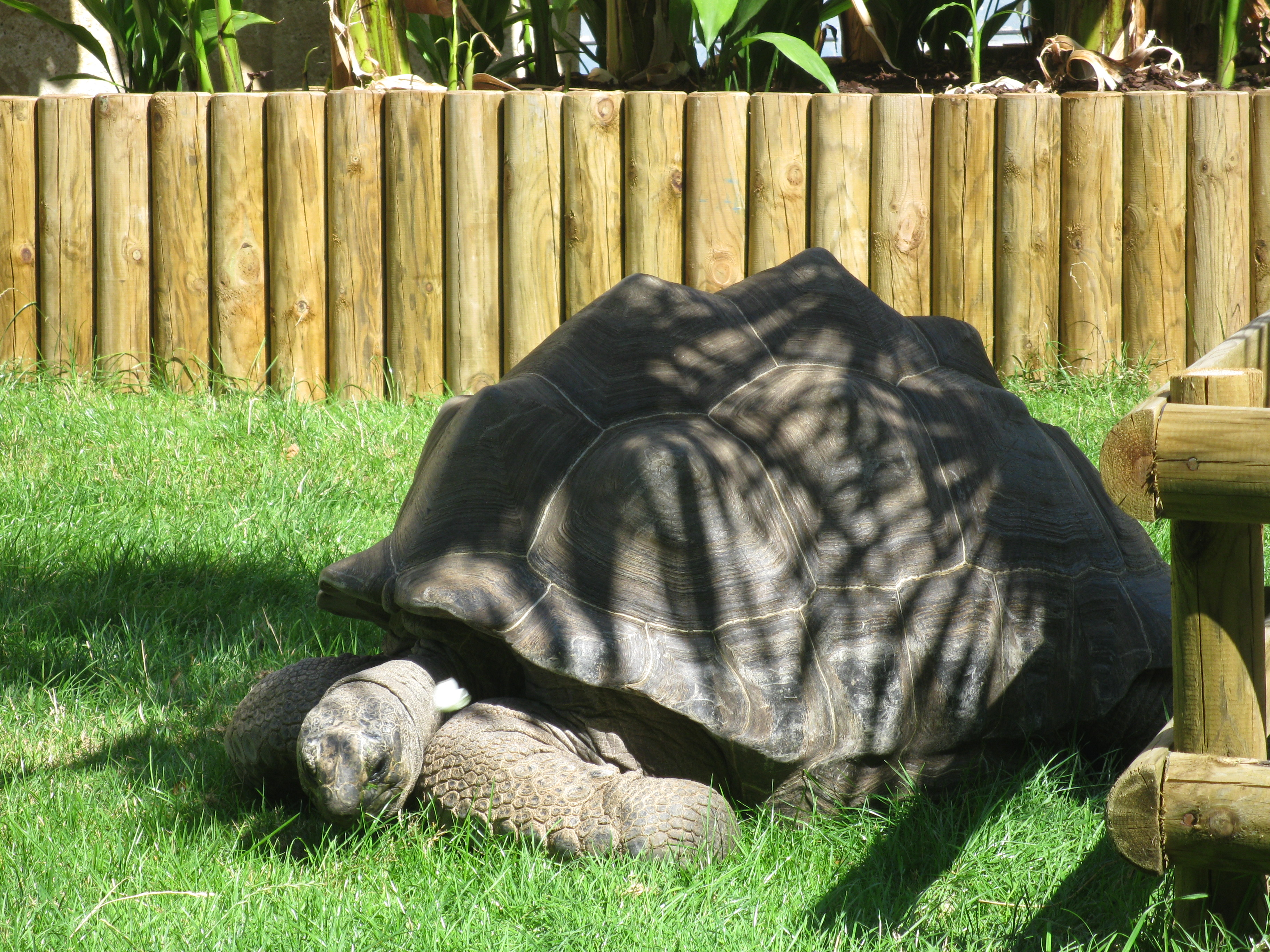 A chelonian Aldabrachelys gigantea from the Muséum National d'Histoire Naturelle, Paris